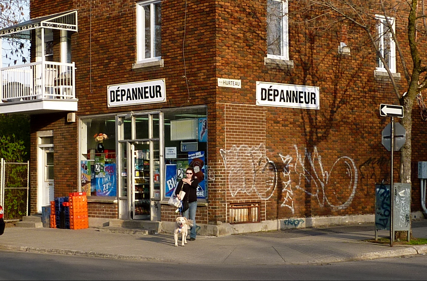 Typical depanneur in Montreal, Quebec